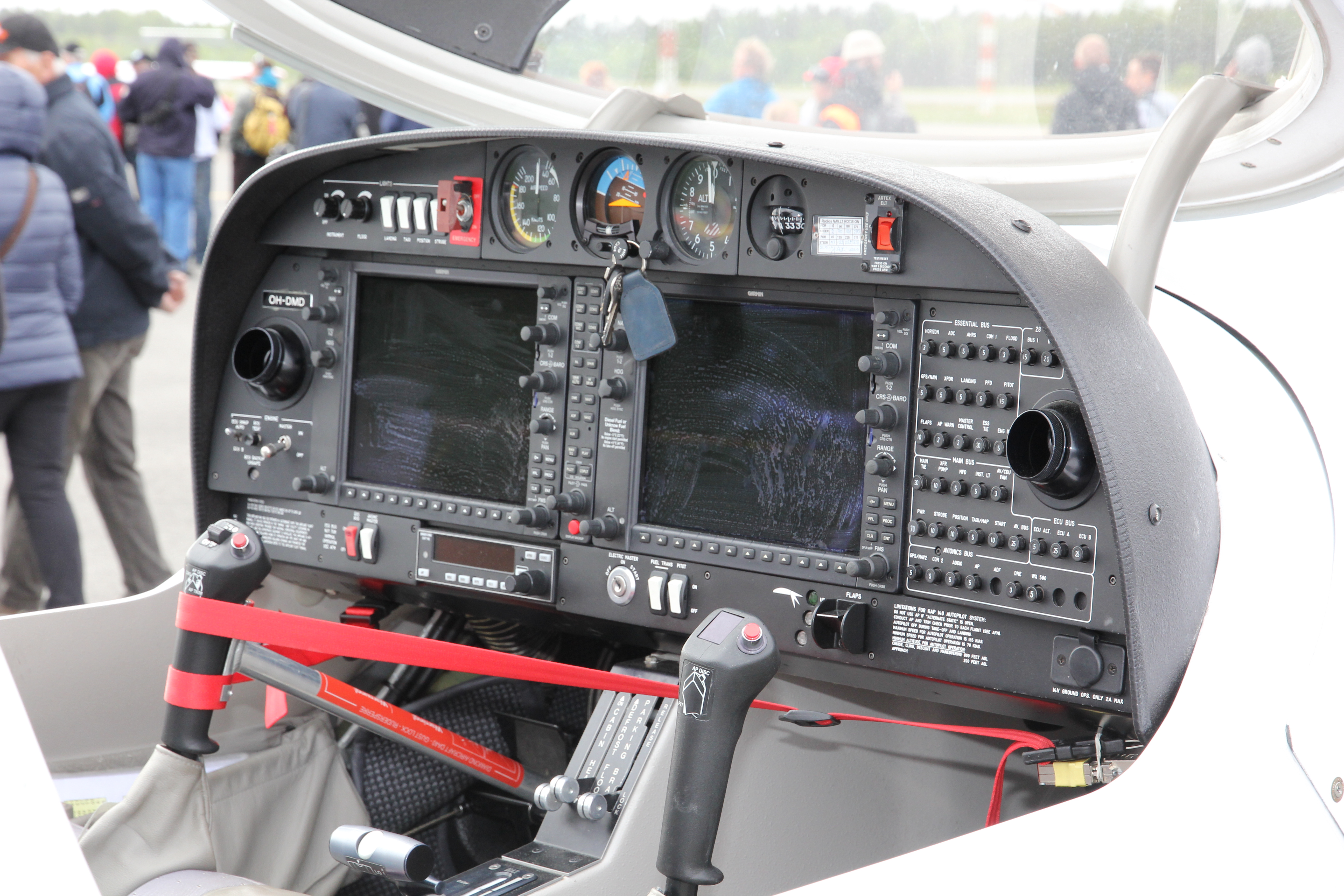 Diamond DA40 (OH-DMD) in Turku Airshow 2015.